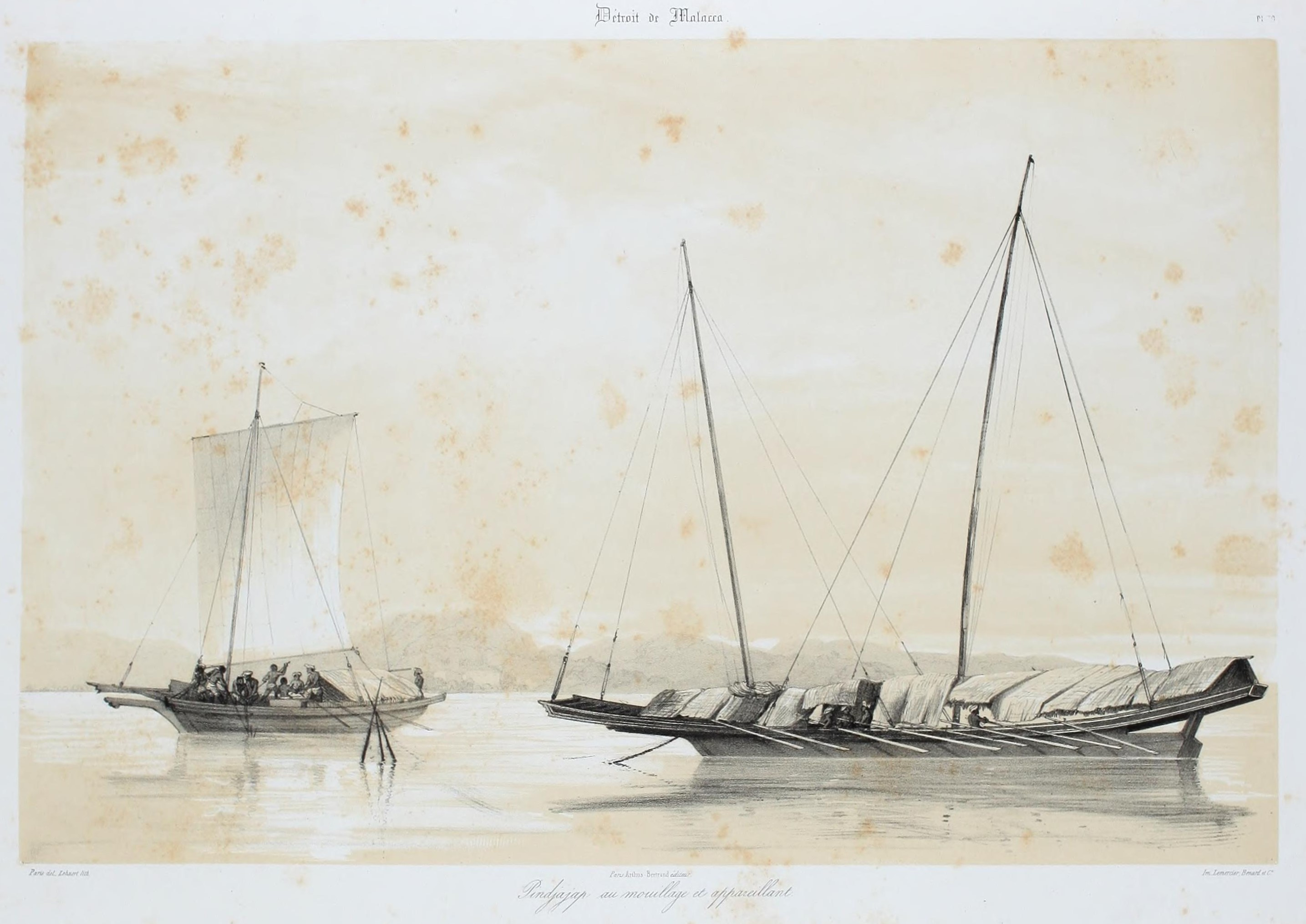 A penjajap (right) in anchor at Malacca strait.